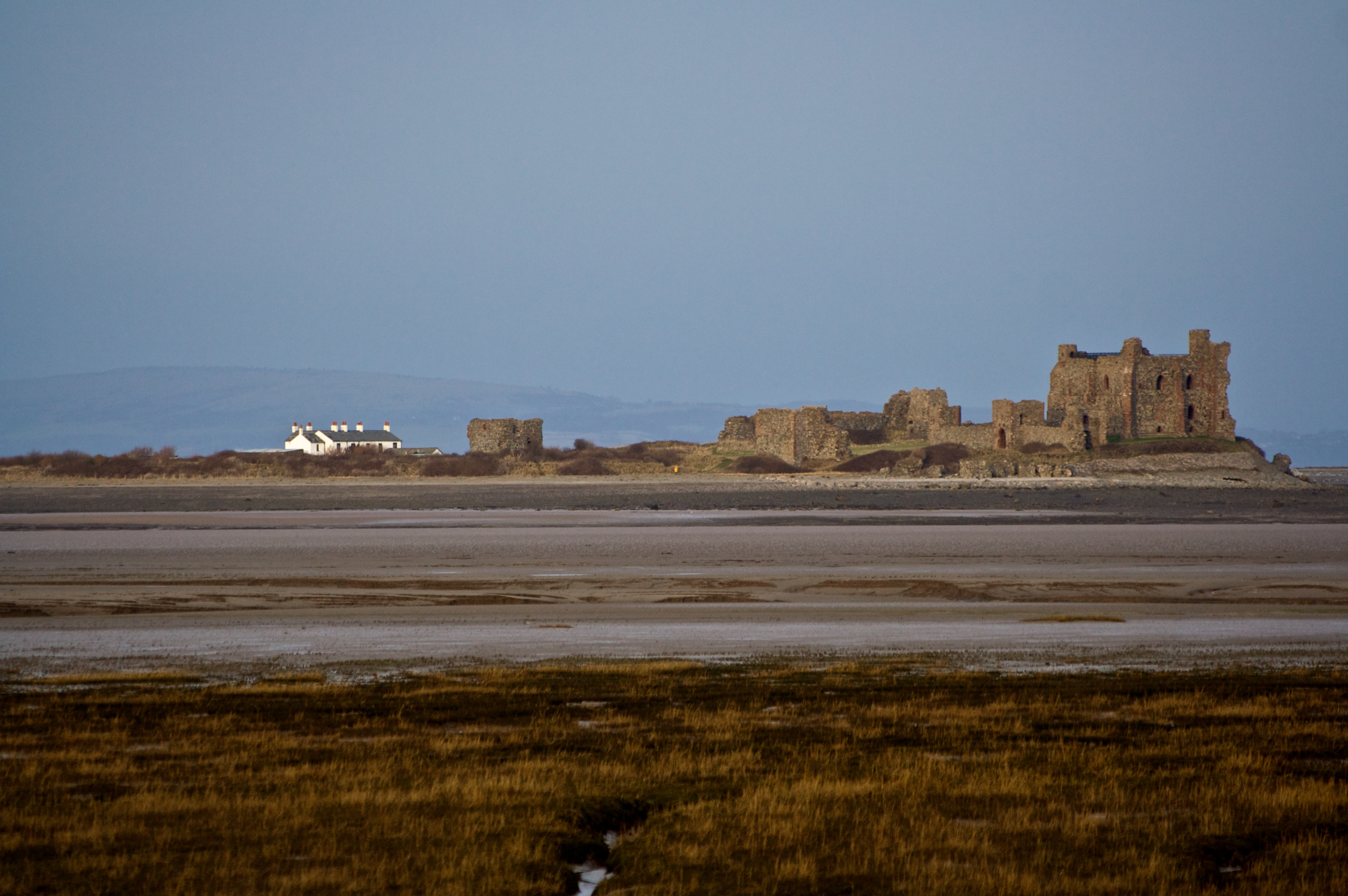 Piel Island and Castle, Barrow-in-Furness